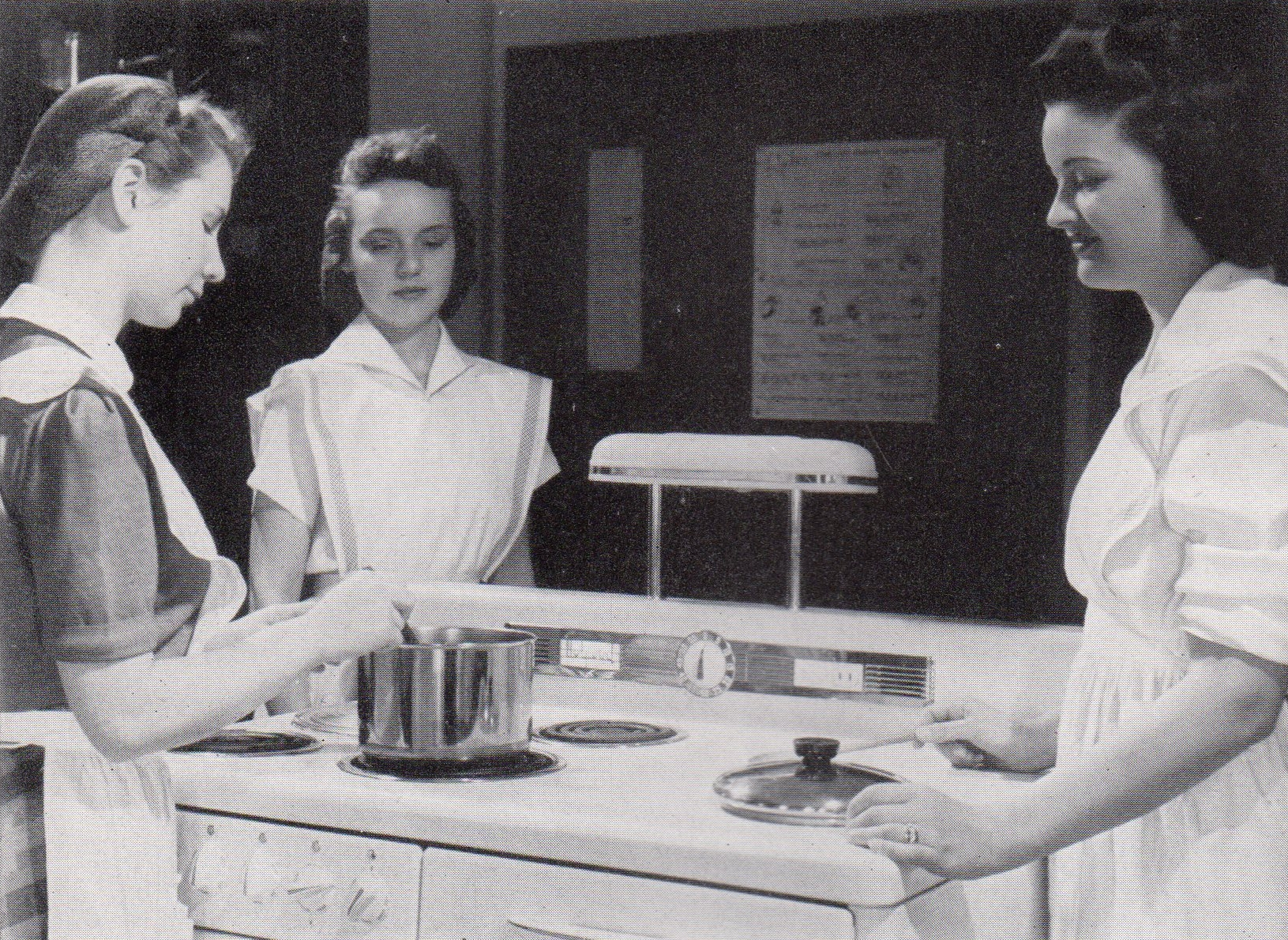 Photograph of students participating in a home economics class at Shimer College in 1941-1942, from the 1942 yearbook of Shimer College. Captioned "Hey kids, what's cooking?" Now a liberal arts college in Chicago with a Great Books curriculum, Shimer was then a four-year women's junior college in Mount Carroll, Illinois. Published in the school's 1942 yearbook, which does not contain a copyright notice. Additionally in the public domain due to the terms of dedication of the Shimer College Collection (which includes a copy of this yearbook) to NIU in 1979, which vested literary rights in the collection in the public.